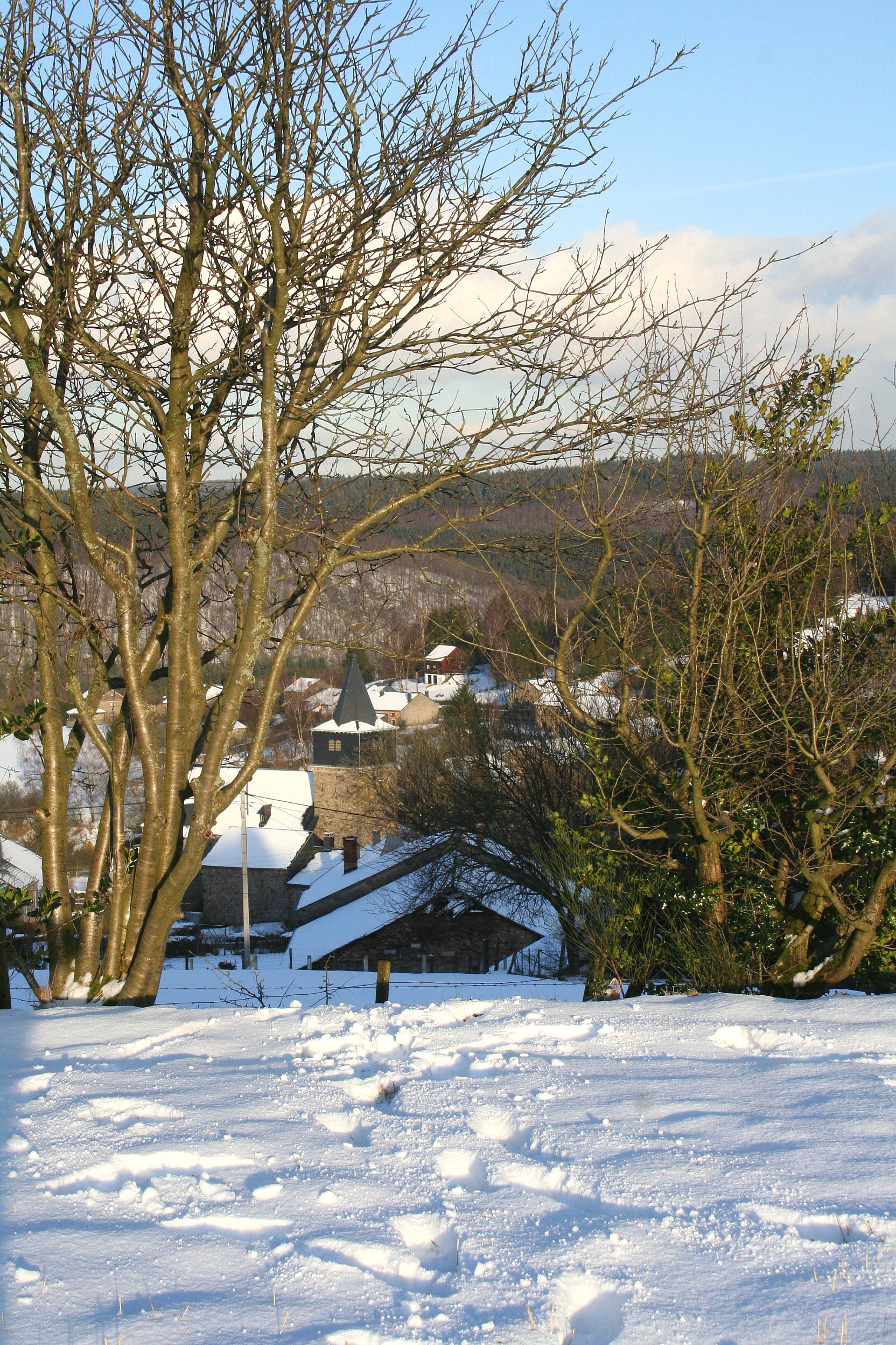 Dochamps, Manhay, Belgium: the village in winter.